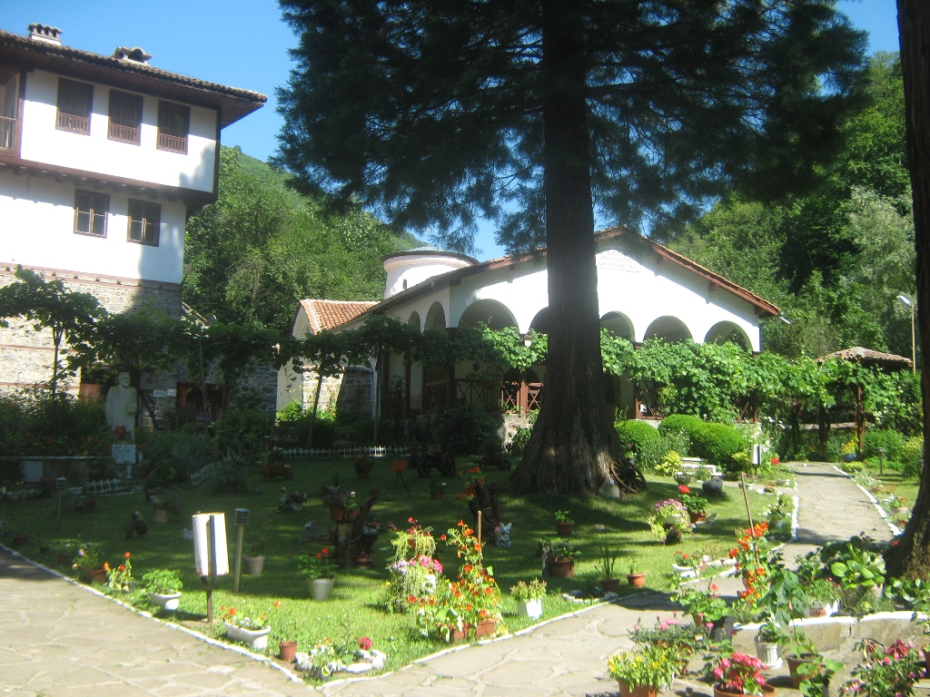 7 ?Tron